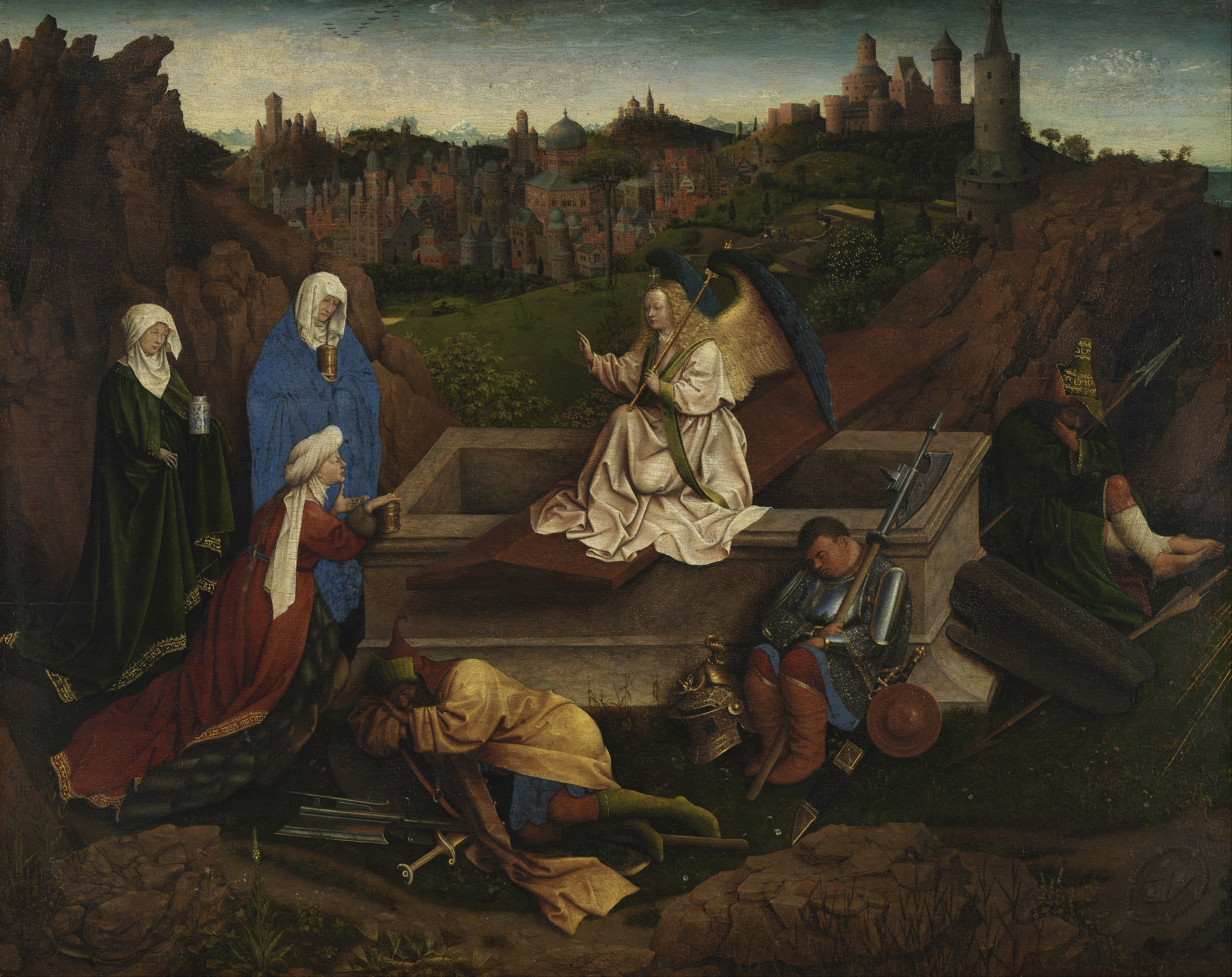 Fragment, possibly from an altarpiece to the Virgin Mary.